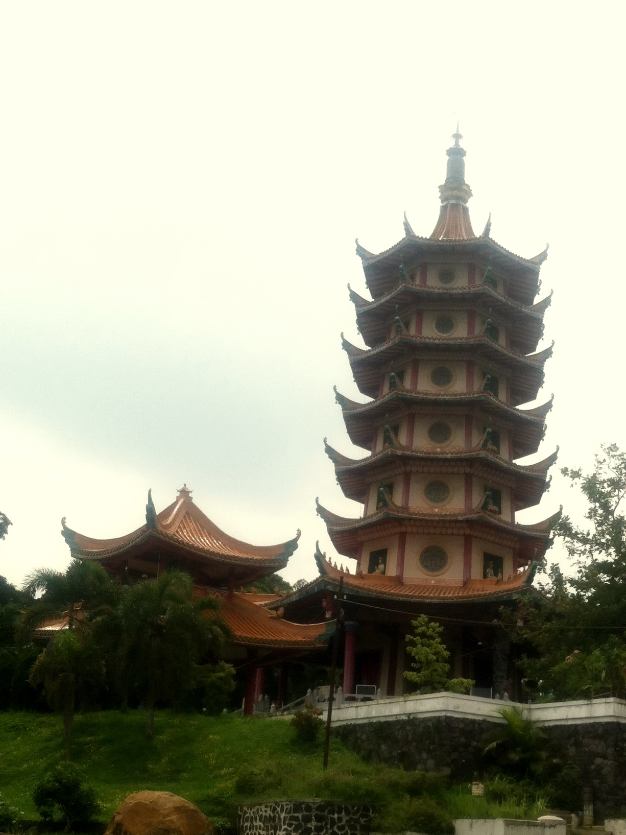 Pagoda Avalokitesvara also known as Pagoda Kwan Im is located at Vihara Buddhagaya Watugong temple complex in Semarang. Build in Oktober 1955 it represents oriental cultural influence in religion and architecture from the age of Majapahit empire.